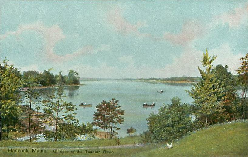 Glimpse of the Taunton River (Taunton Bay), Hancock, Maine